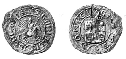 Seal of Reginald of Sidon